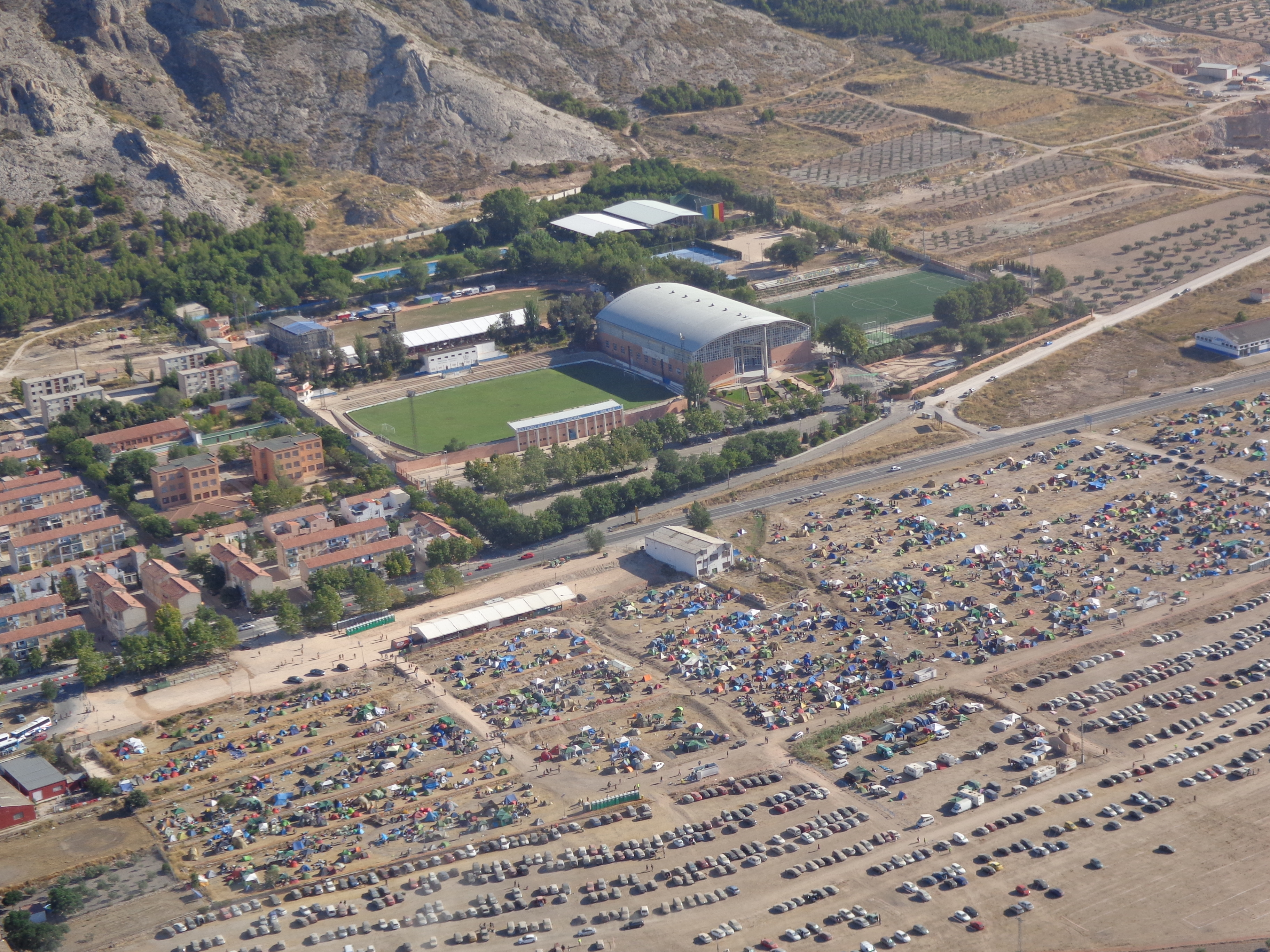 Aerial view of Villena, Spain